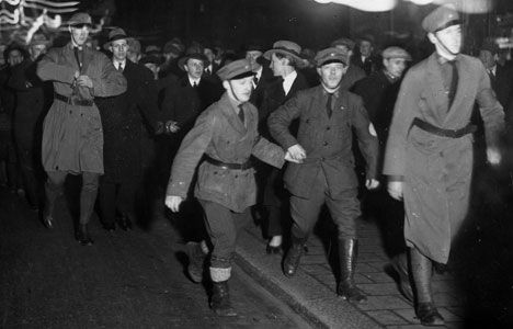 A few Swedish National Socialist are chased from the meeting at Hötorget in Sweden 1932, where Birger Furugård among where speaking.